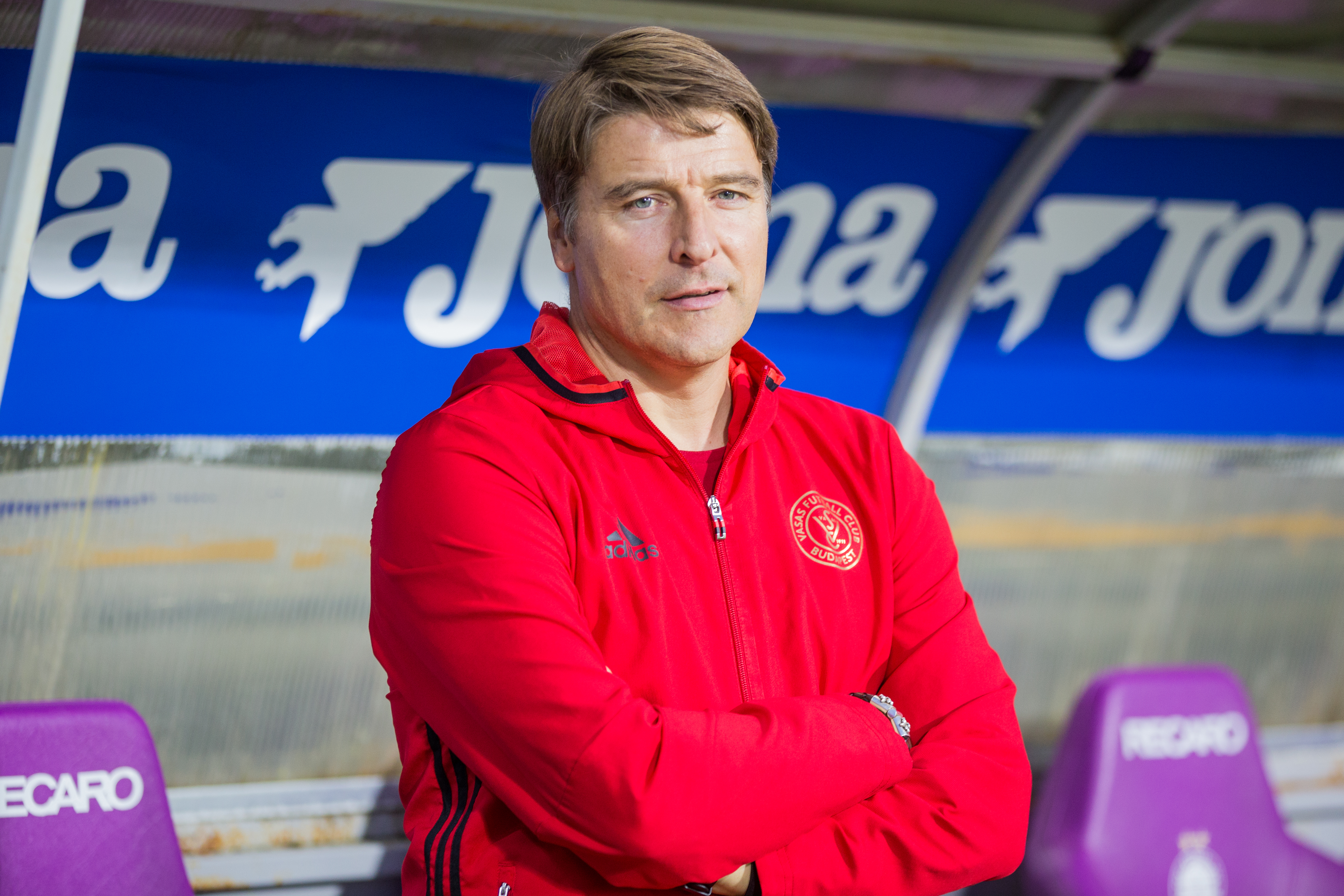 Michael Oenning, manager of Vasas FC at the league game against Haladás, October 17, 2017